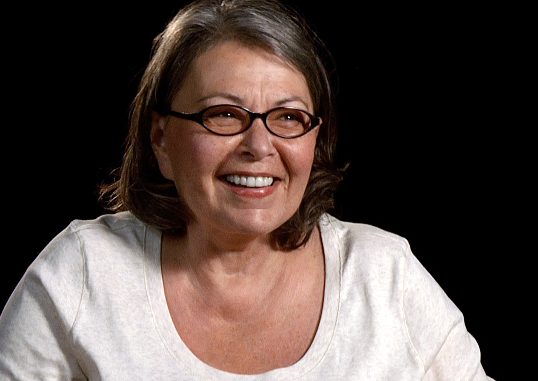 Screenshot of Roseanne Barr from Jordan Brady's film "I Am Comic"